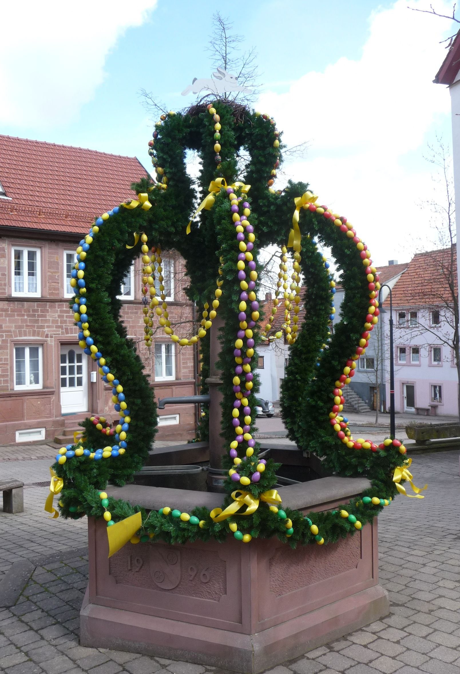 Mudau